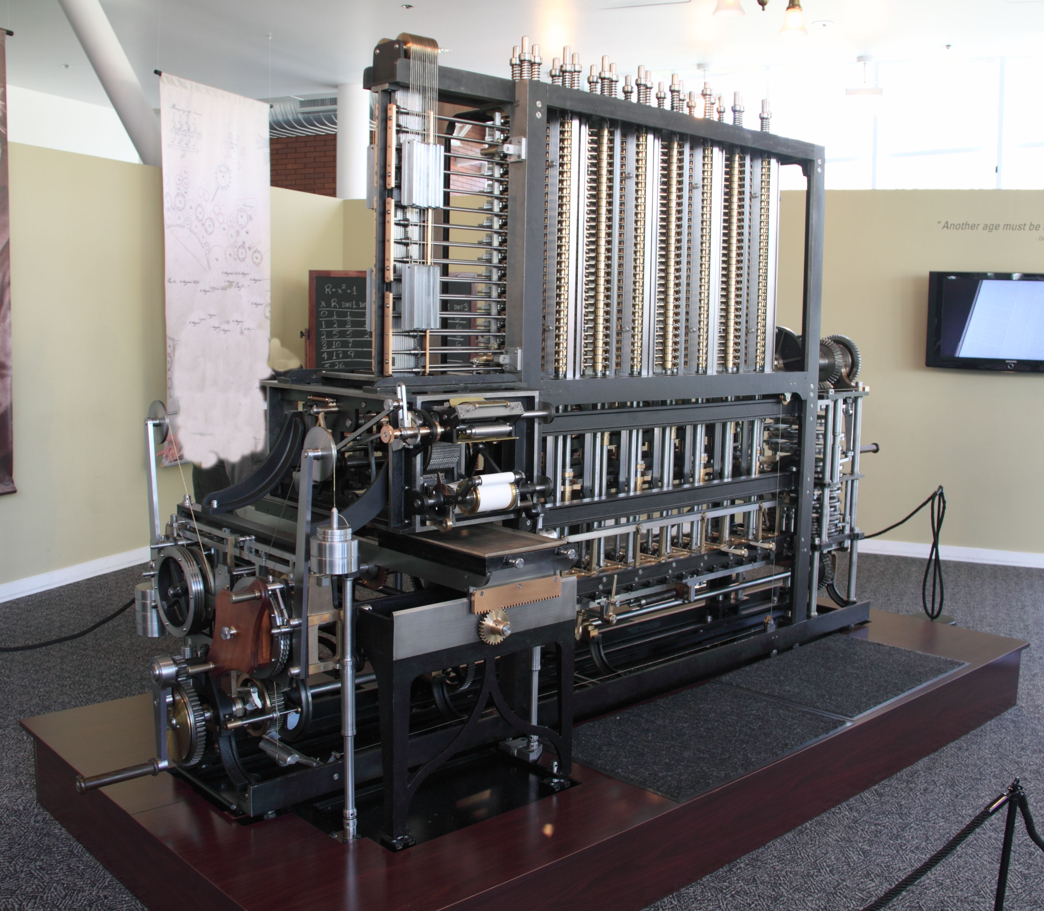 Babbage Difference Engine No. 2 built at the Science Museum, London, on display at the Computer History Museum in Mountain View, California.